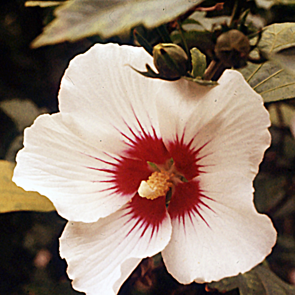 Hibiscus syriacus white flower